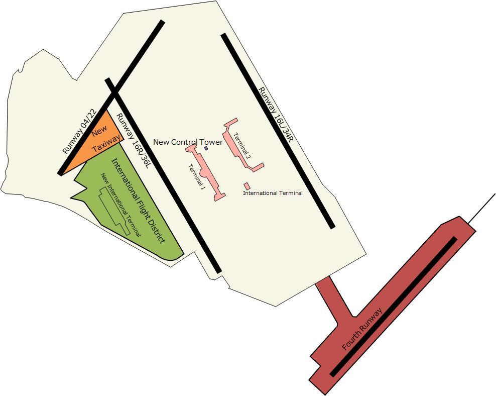 The map of Re-extension Project at Tokyo International Airport (English language)